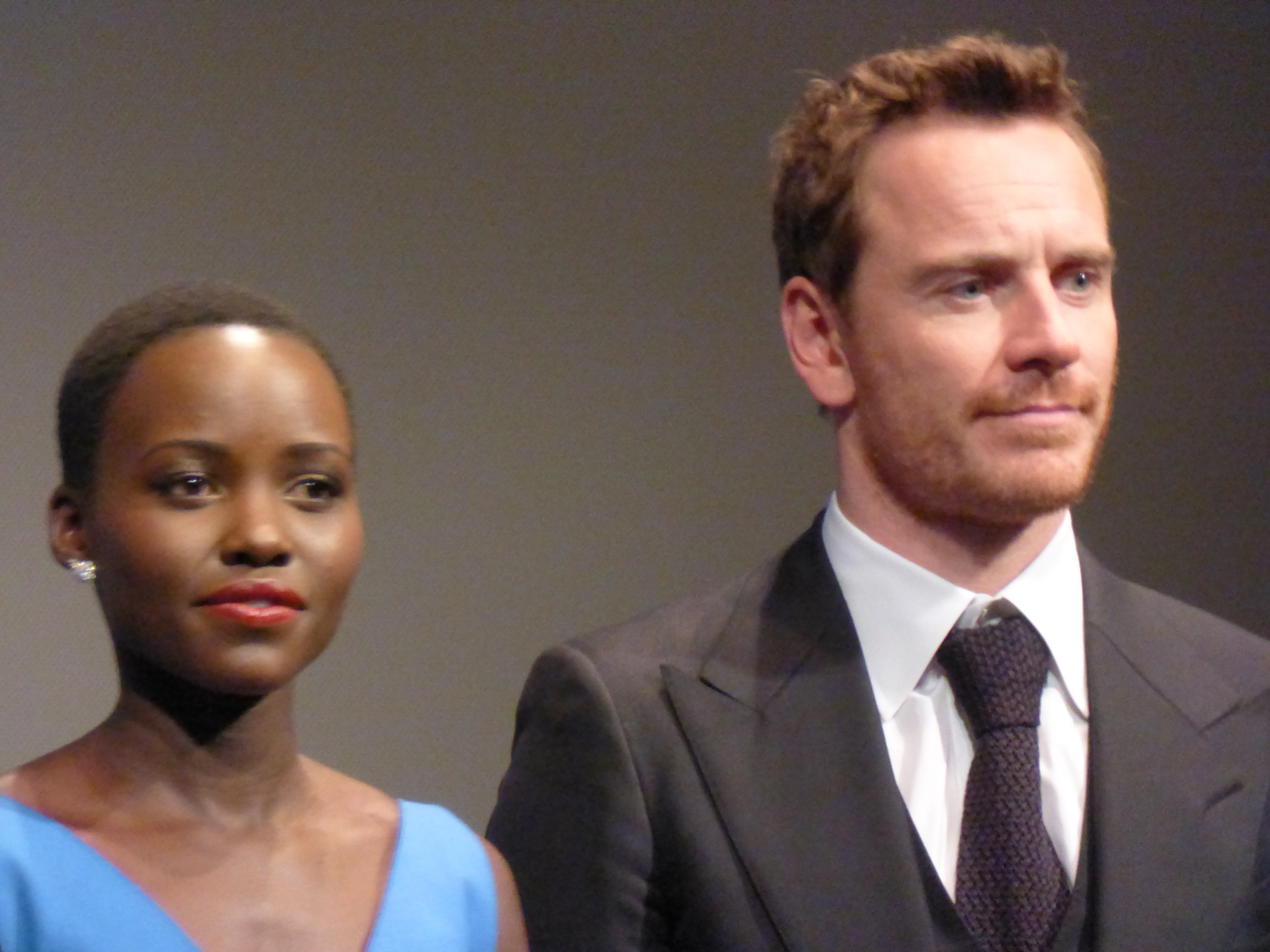 Nyong'o and Fassbender at the 2013 New York Film Festival